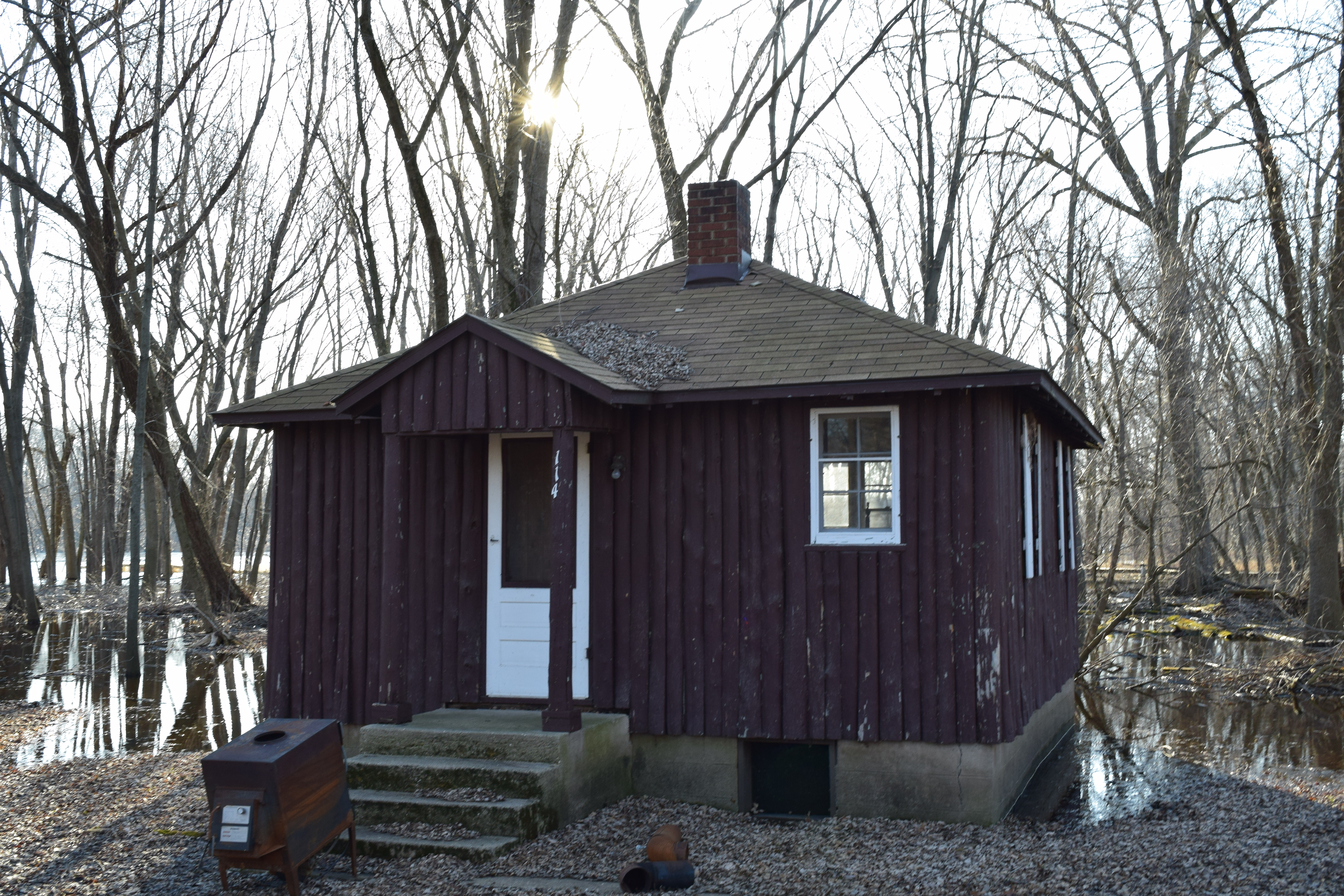 The Lorine Niedecker Cottage is located at W7307 Blackhawk Island Road in the town of Sumner, Wisconsin. The cottage was the home of poet Lorine Niedecker and is listed on the National Register of Historic Places.